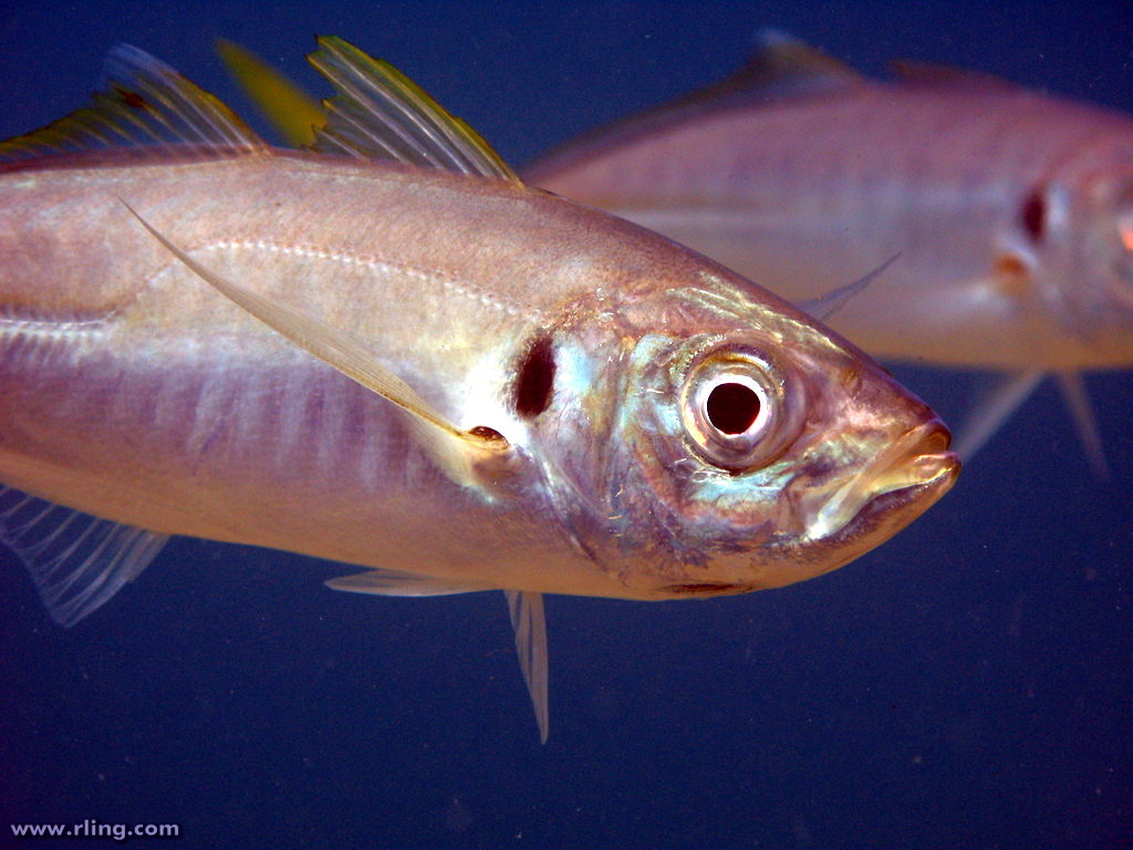 Portrait of a Yellowtail Scad (Trachurus novaezelandiae). Fairy Bower, Manly, NSW